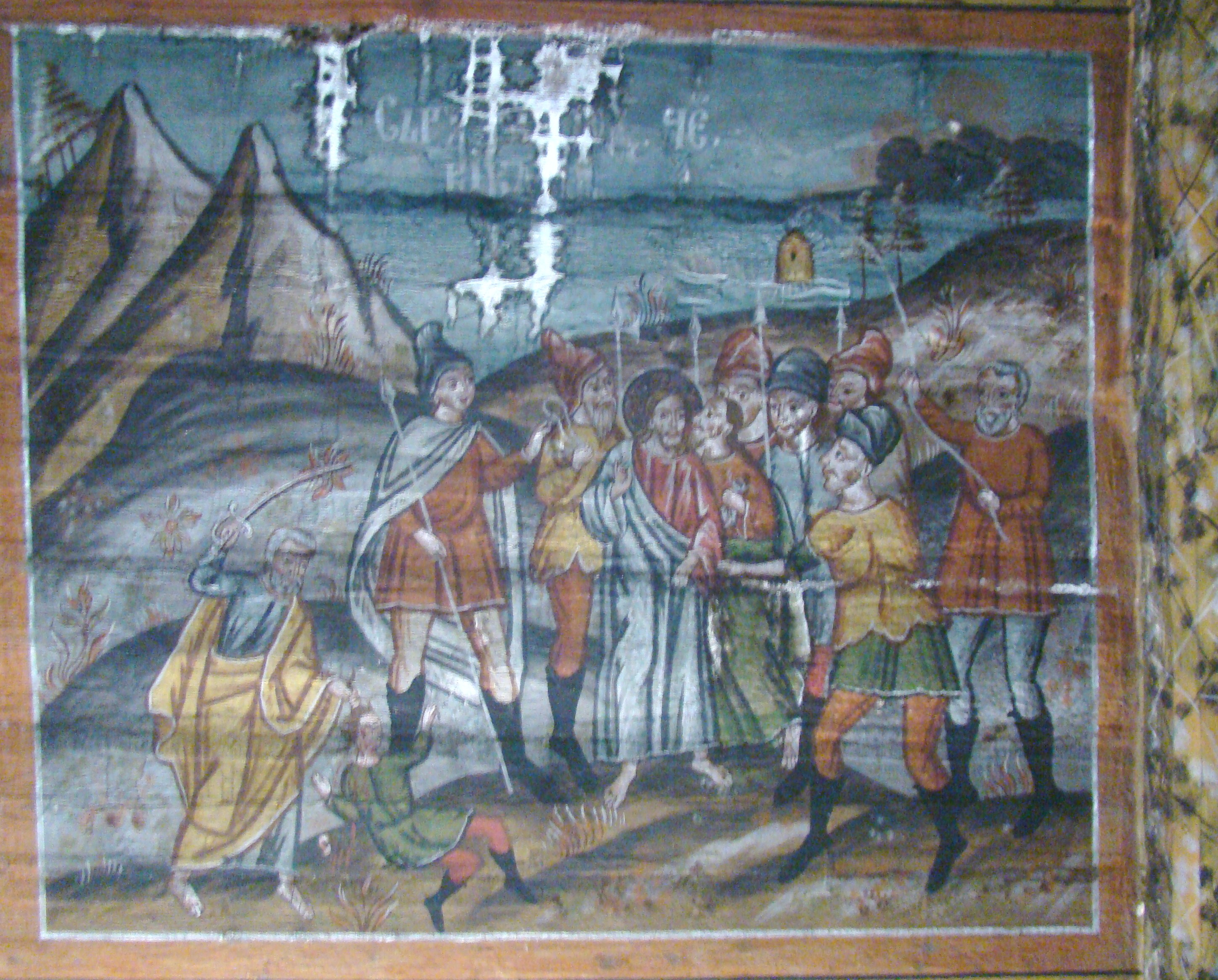 Wooden church in Apoldu de Jos, Sibiu countyRomână: Biserica de lemn din Apoldu de Jos, județul Sibiu